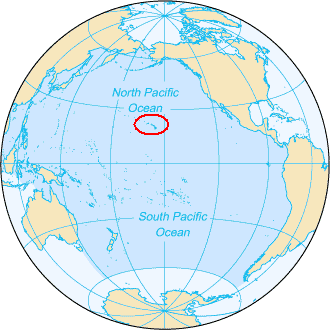 The location of Hawaii in the Pacific Ocean